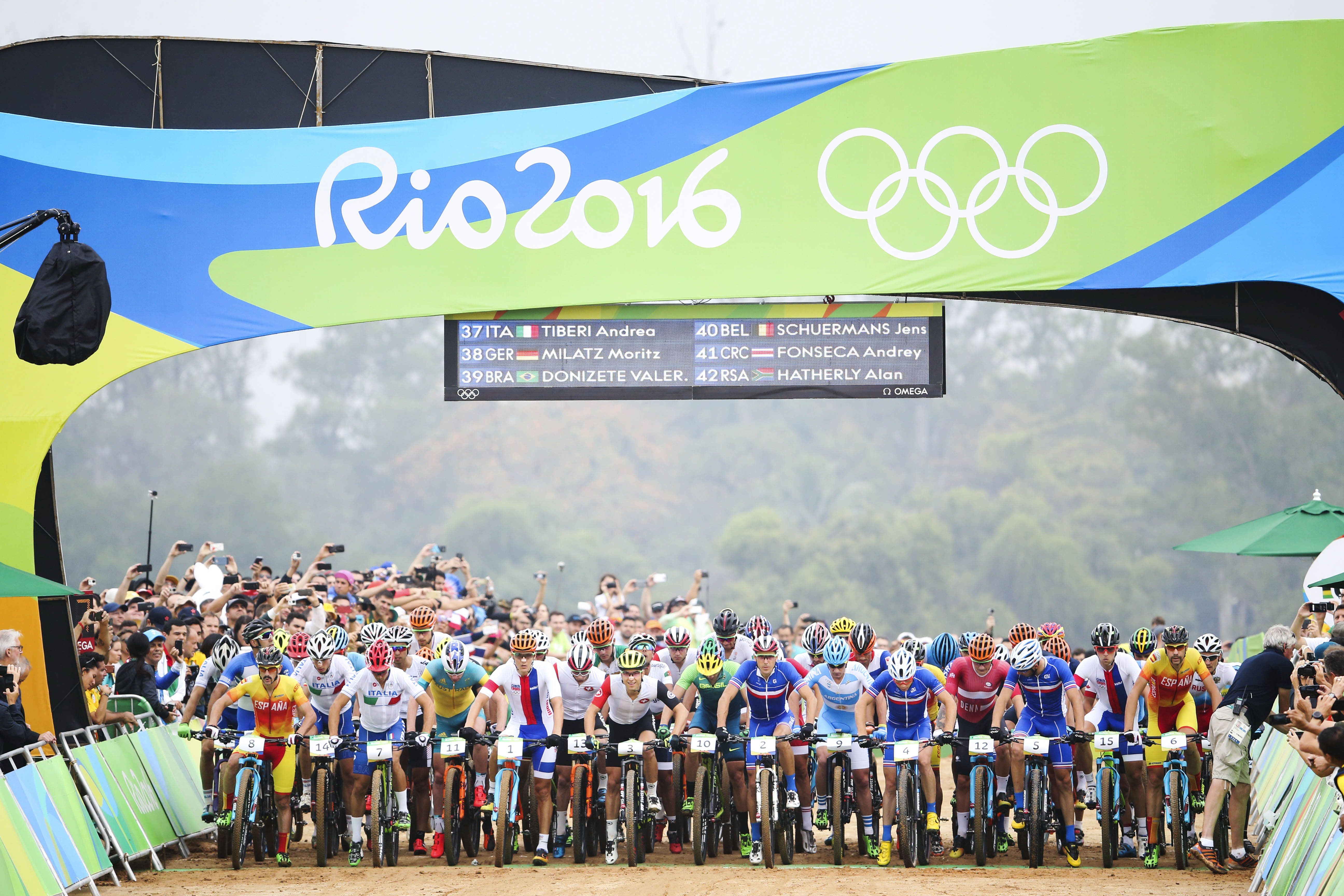 Cycling at the 2016 Summer Olympics – Men's cross-country